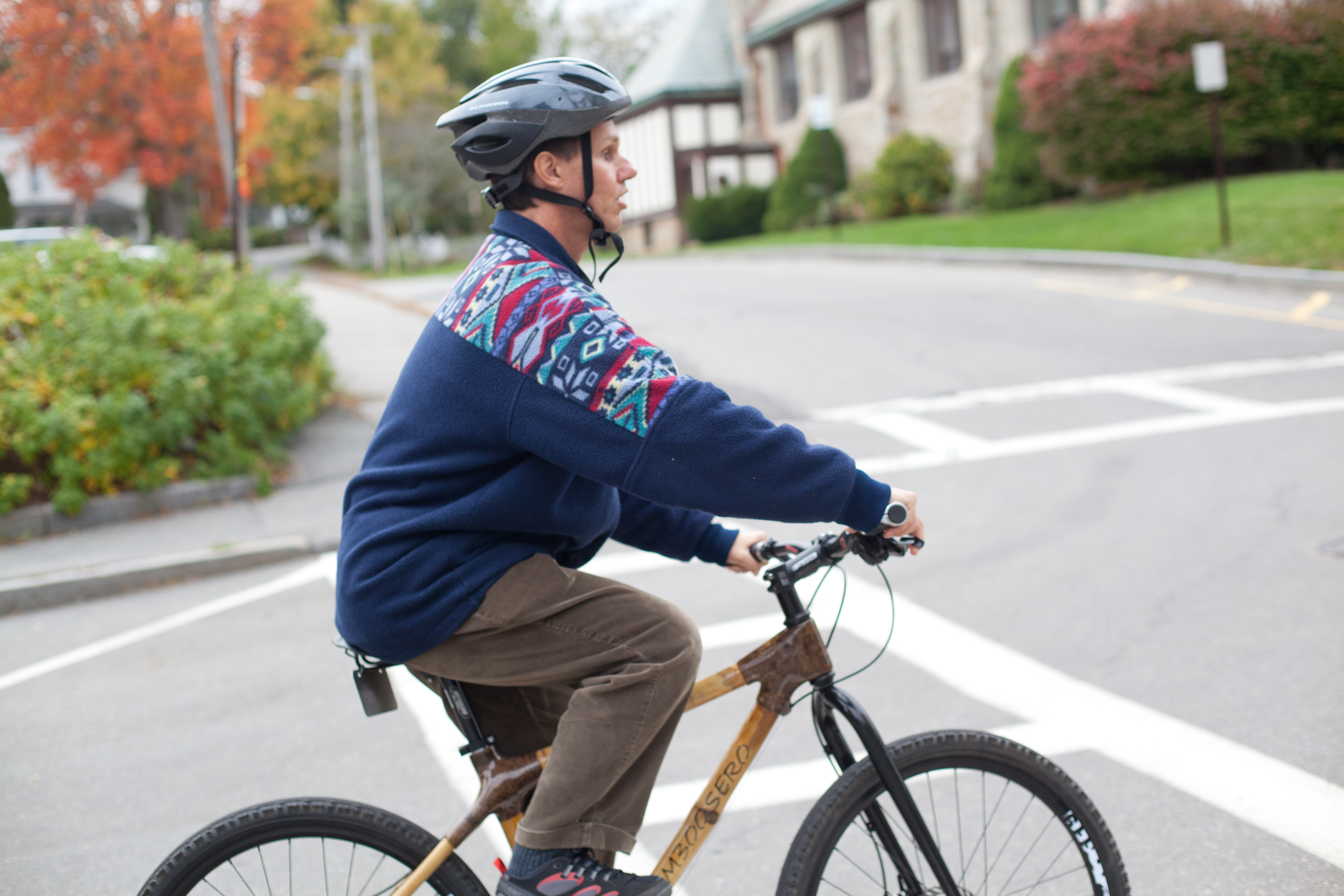 photo by Thatcher Cook for PopTech